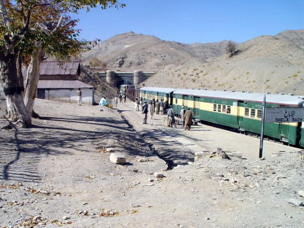 Khojak Tunnel This is a photo of a monument in Pakistan identified as the BA-U-56